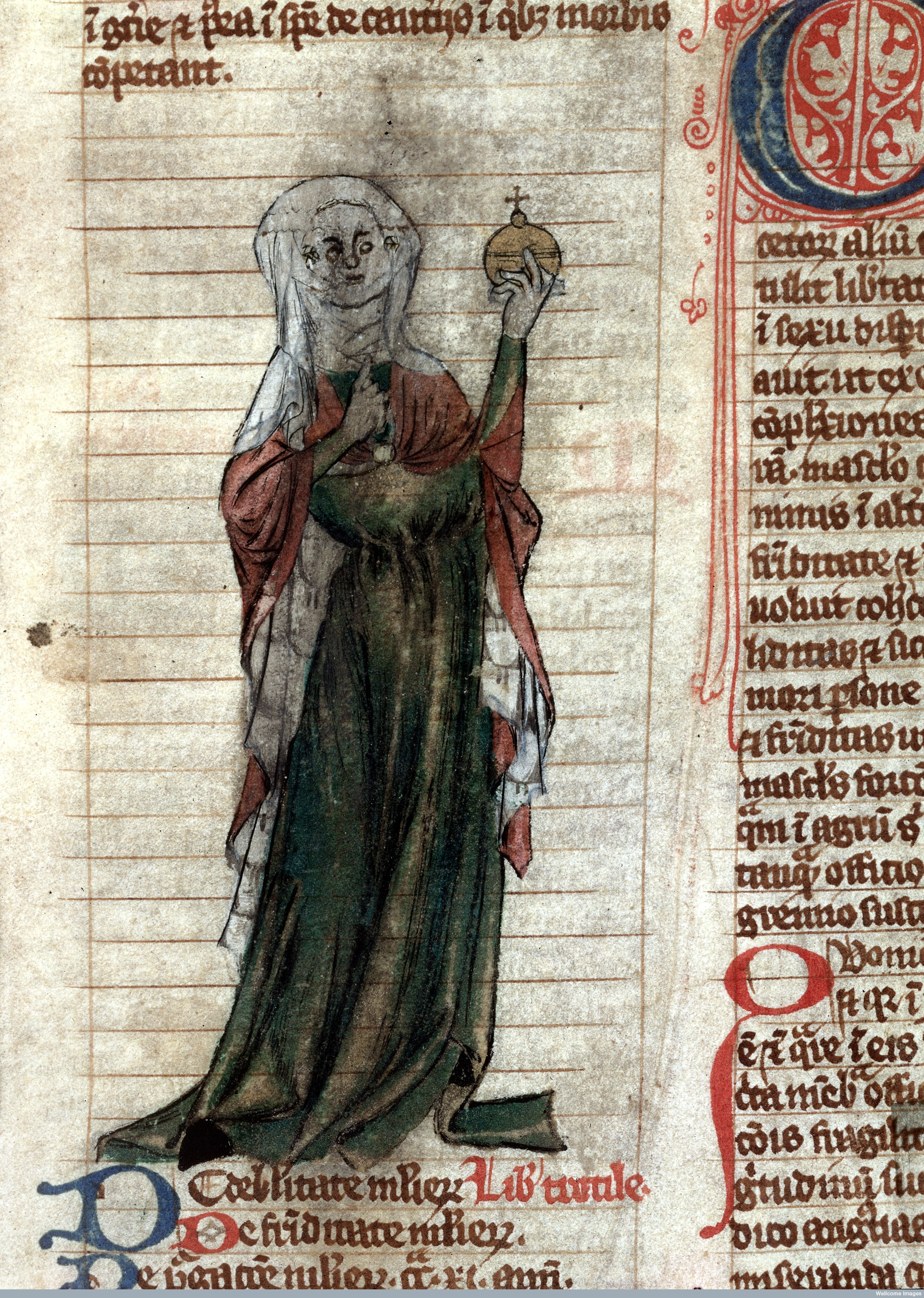 Pen and wash drawing showing a standing female healer, perhaps of Trotula, clothed in red and green with a white headdress, holding up a urine flask to which she points with her right hand. From: Miscellanea medica XVIII, Published: Early 14th century, Folio 65 recto (=33 recto), Collection: Archives & Manuscripts, Library reference no.: and Archives and Manuscripts MS.544